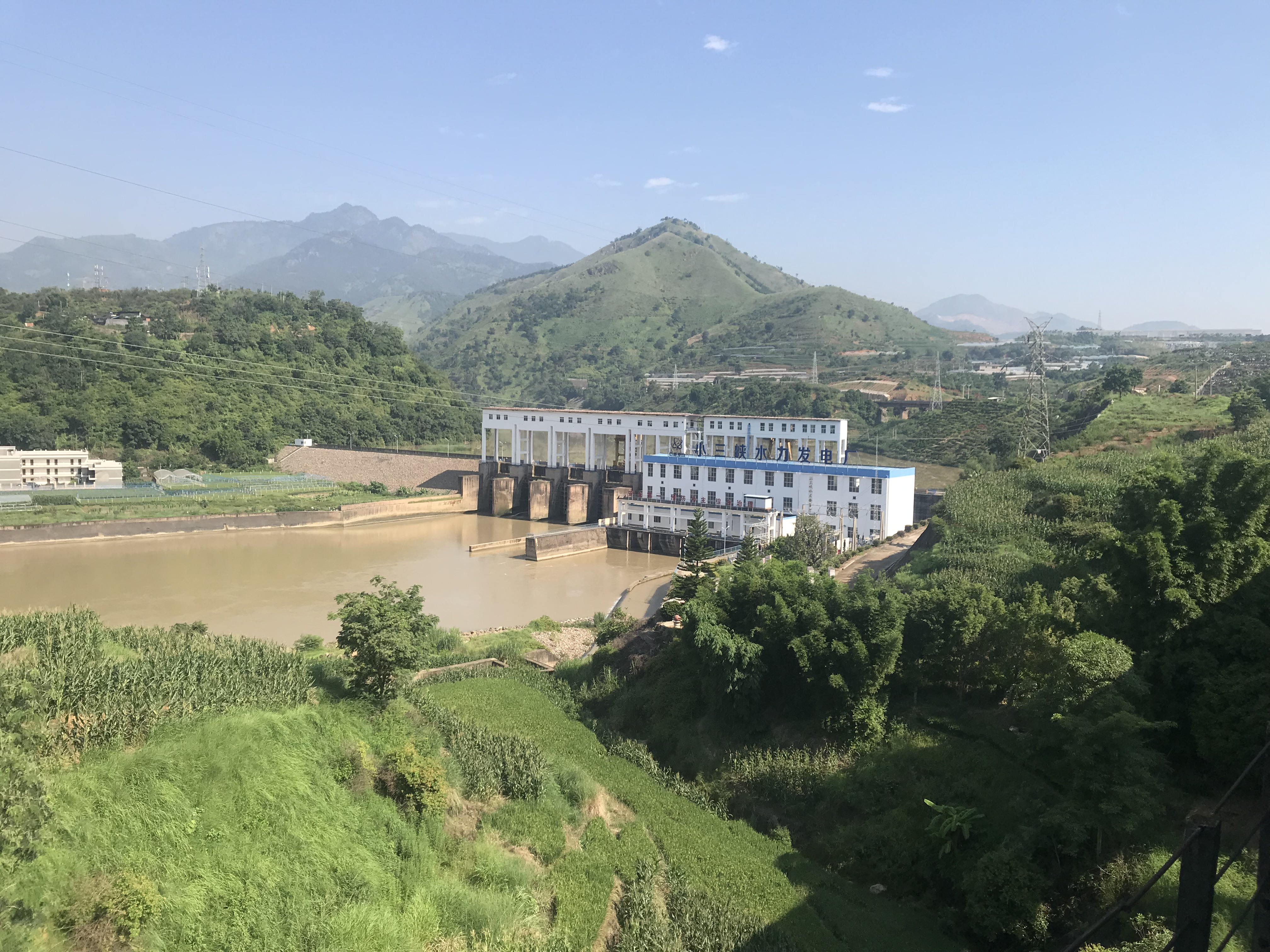 201908 Xiaosanxia Dam of Anning River